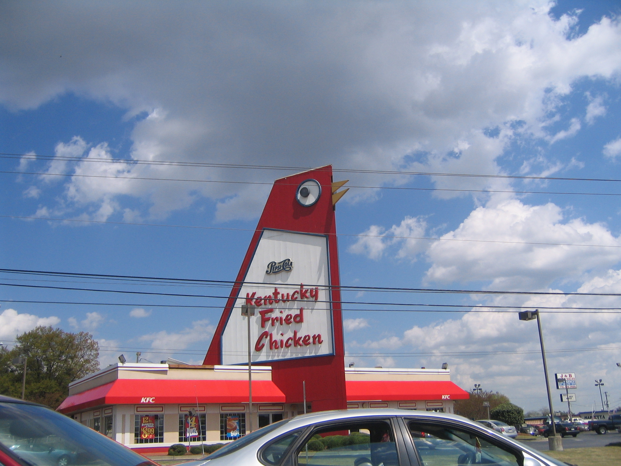 Kentucky Fried Chicken restaurant